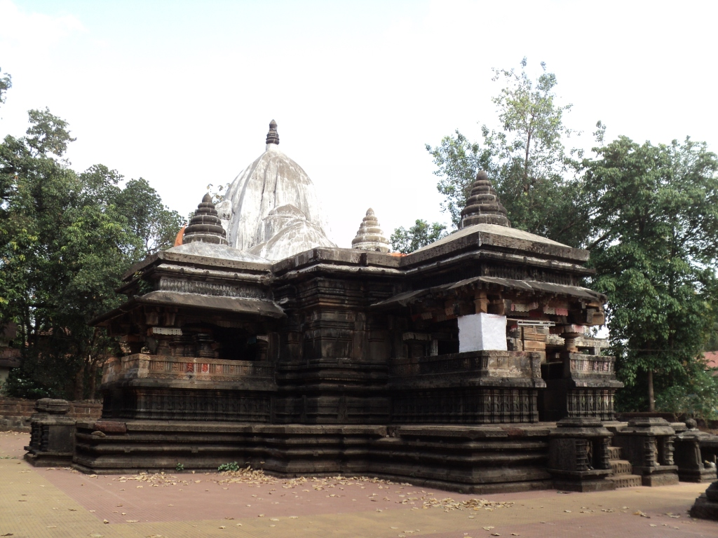 Karneshwar Temple Lord Siv Temple in Sangameshwar,Ratnagiri